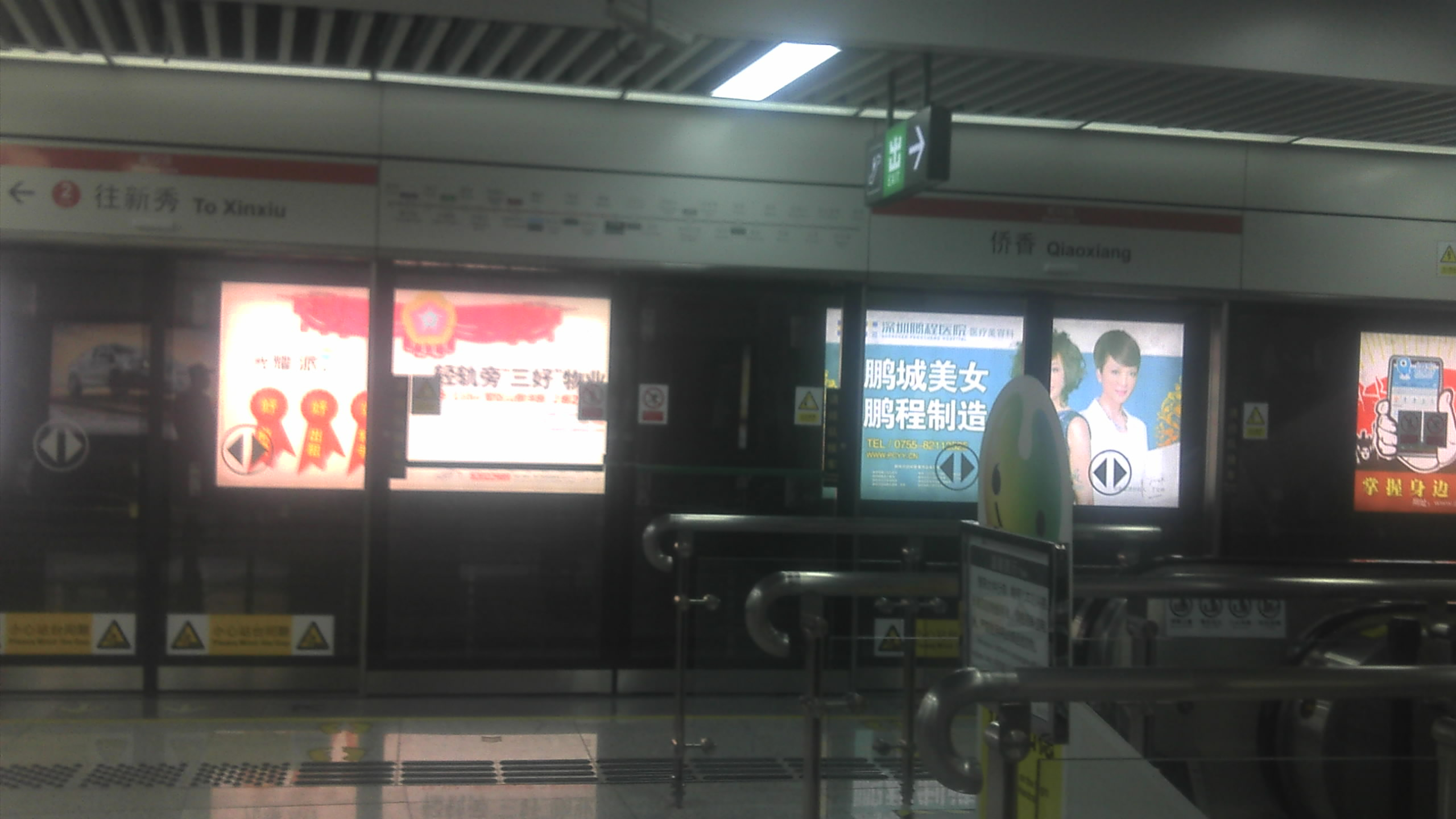 This photo was taken as Oct 22, 2011.